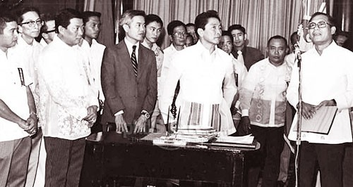 Philippine President Ferdinand E. Marcos with members of the Cabinet in the 1970s.